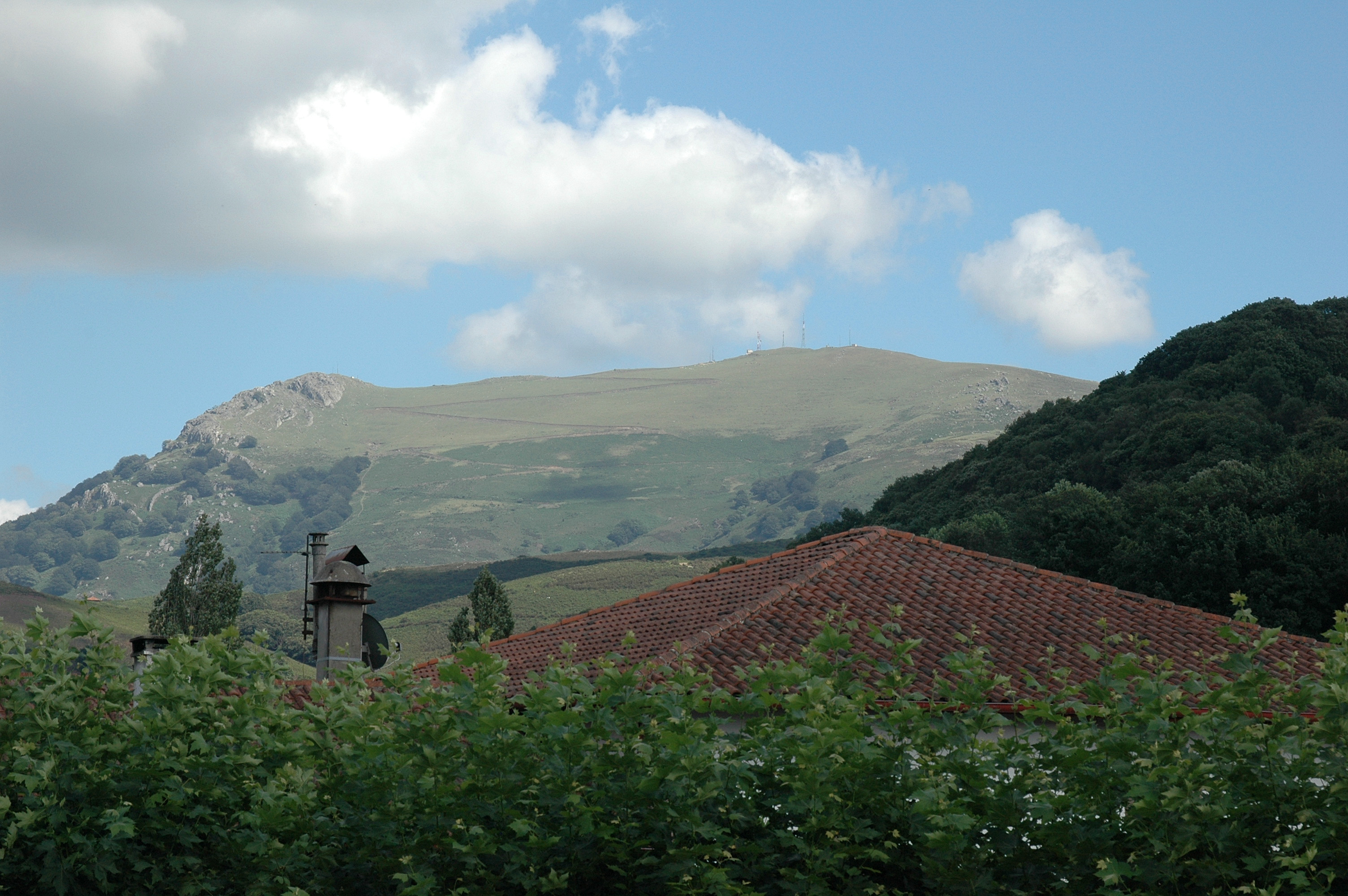 Mount Baigura (897 m) seen from Luhuso (fr. Louhossoa); this mountain is on the border between Labourd and Lower Navarre, Basque Country.